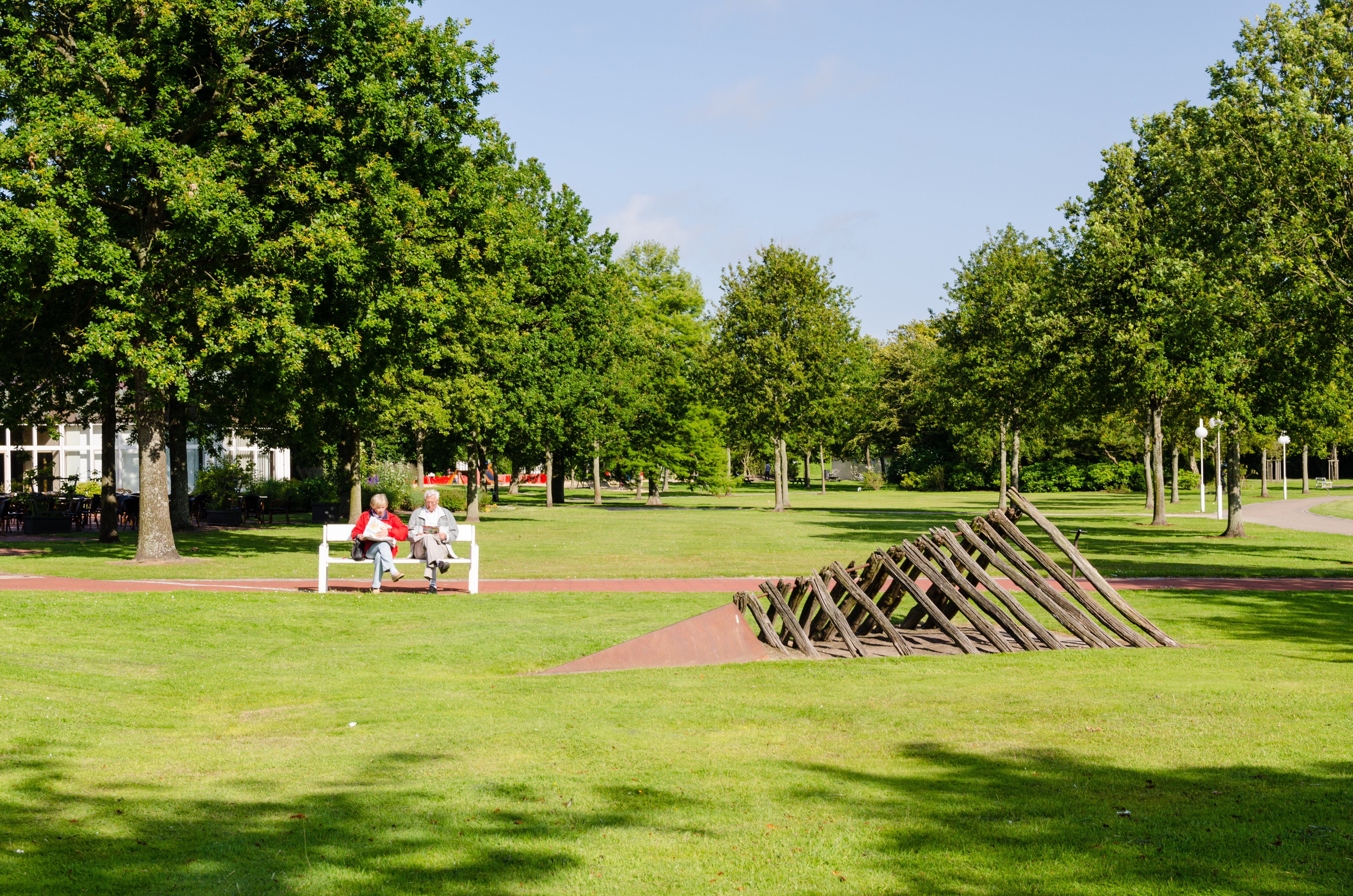 Spa gardens of Döse